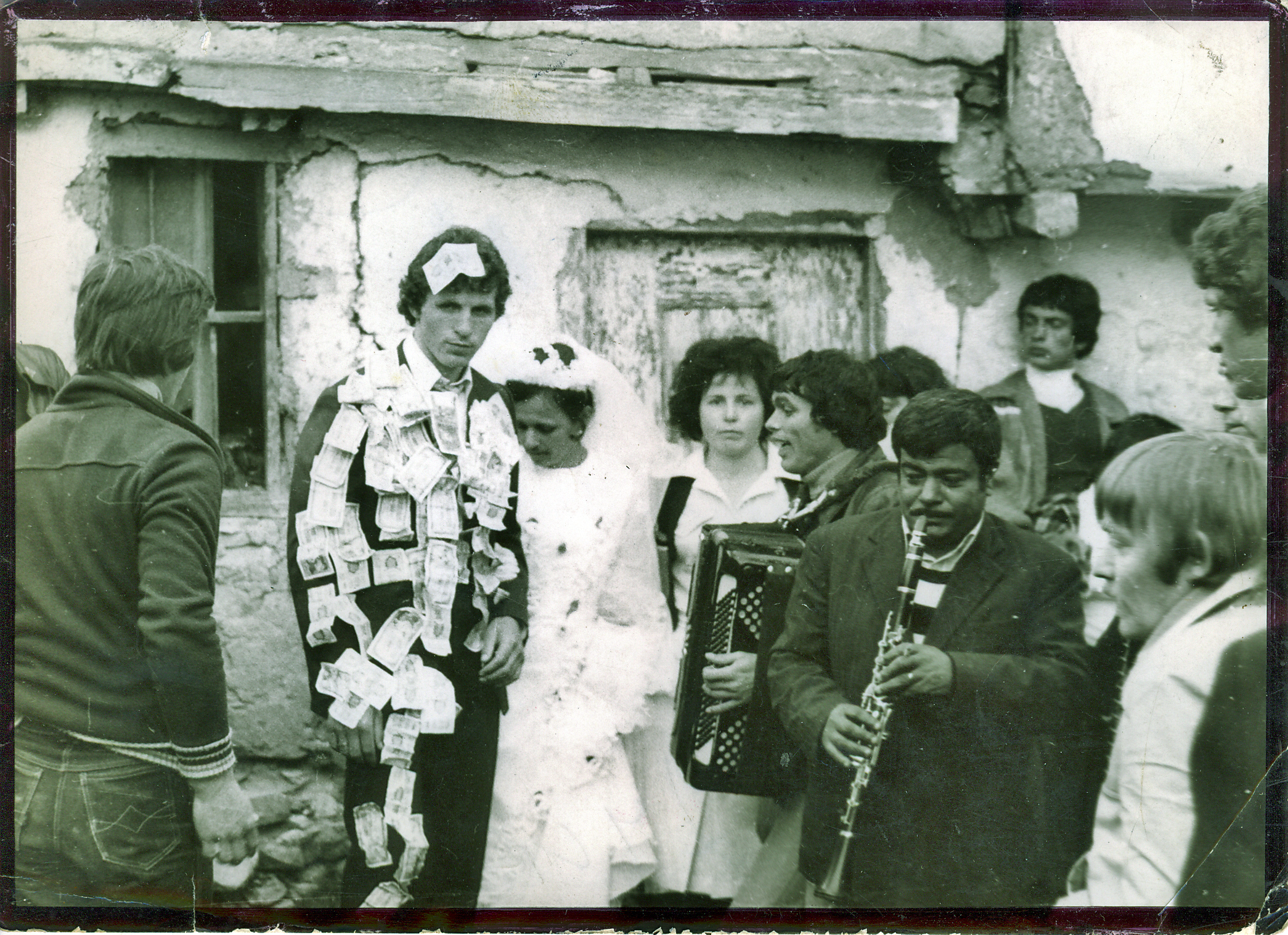 Wedding in Cer village near Kicevo, present-day North Macedonia (circa 1973)The bridegroom, according to custom at the time, is clothed with banknotes donated by the wedding guests Српски (ћирилица): Svadba u selu Cer pored Kičeva, današnja Severna Makedonija (oko 1973. godine)Mladoženja je, prema tadašnjem običaju, oblepljen novčanicama koje su darovali svatovi